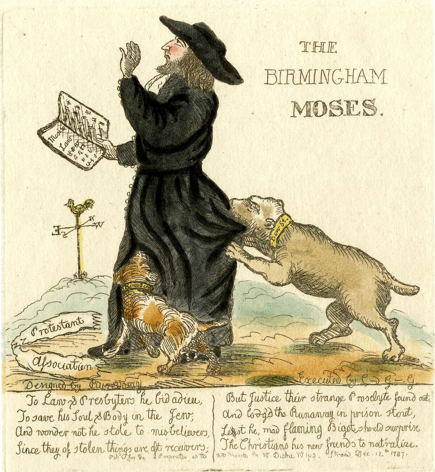 Lord George Gordon, dressed as a Jew, stands in profile to the left, holding an open book inscribed 'Mosaic Law', the pages covered with pseudo-Hebraic characters. He looks up sanctimoniously, his left hand raised. He has a beard and wears a long gown with bands, and a wide-brimmed hat. He ignores two dogs who worry him; the collar of the larger dog is inscribed 'Bow St.', that of the smaller, King's Bench. At his feet is a torn scroll inscribed 'Protestant Association'. In the background is a weathercock pointing to the east. Beneath the design is etched: 'To Law & Presbyters he bid adieu, To save his Soul & Body in the Jew; And wonder not he stole to misbelievers, Since they of stolen things are oft receivers; But Justice their strange Proselyte found out, And lodg'd the Runaway in prison stout, Lest he, mad flaming Bigot, should surprise The Christians his new friends to nat'ralize.' 12 December 1787 Etching with hand-colouring